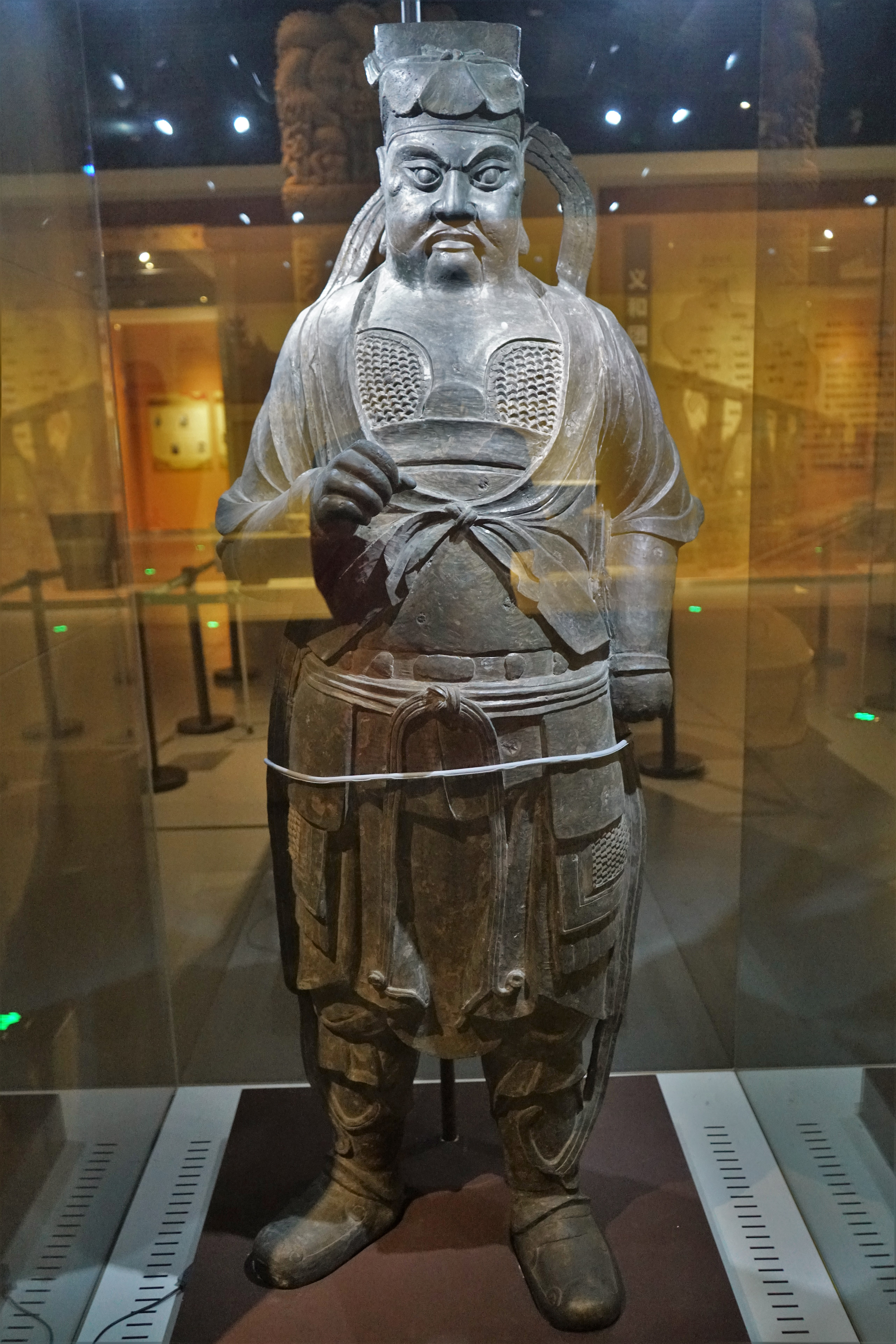 Copper Custodian statue